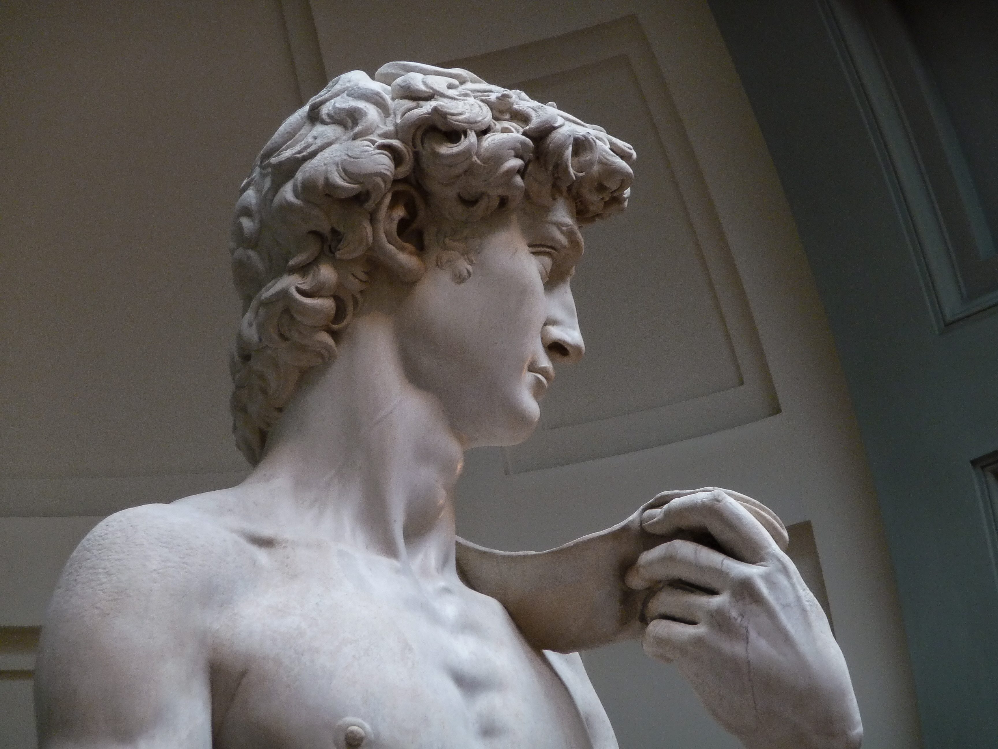 Michelangelo's David, 1501-1504, Galleria dell'Accademia (Florence)